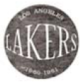 Former Los Angeles Lakers logo